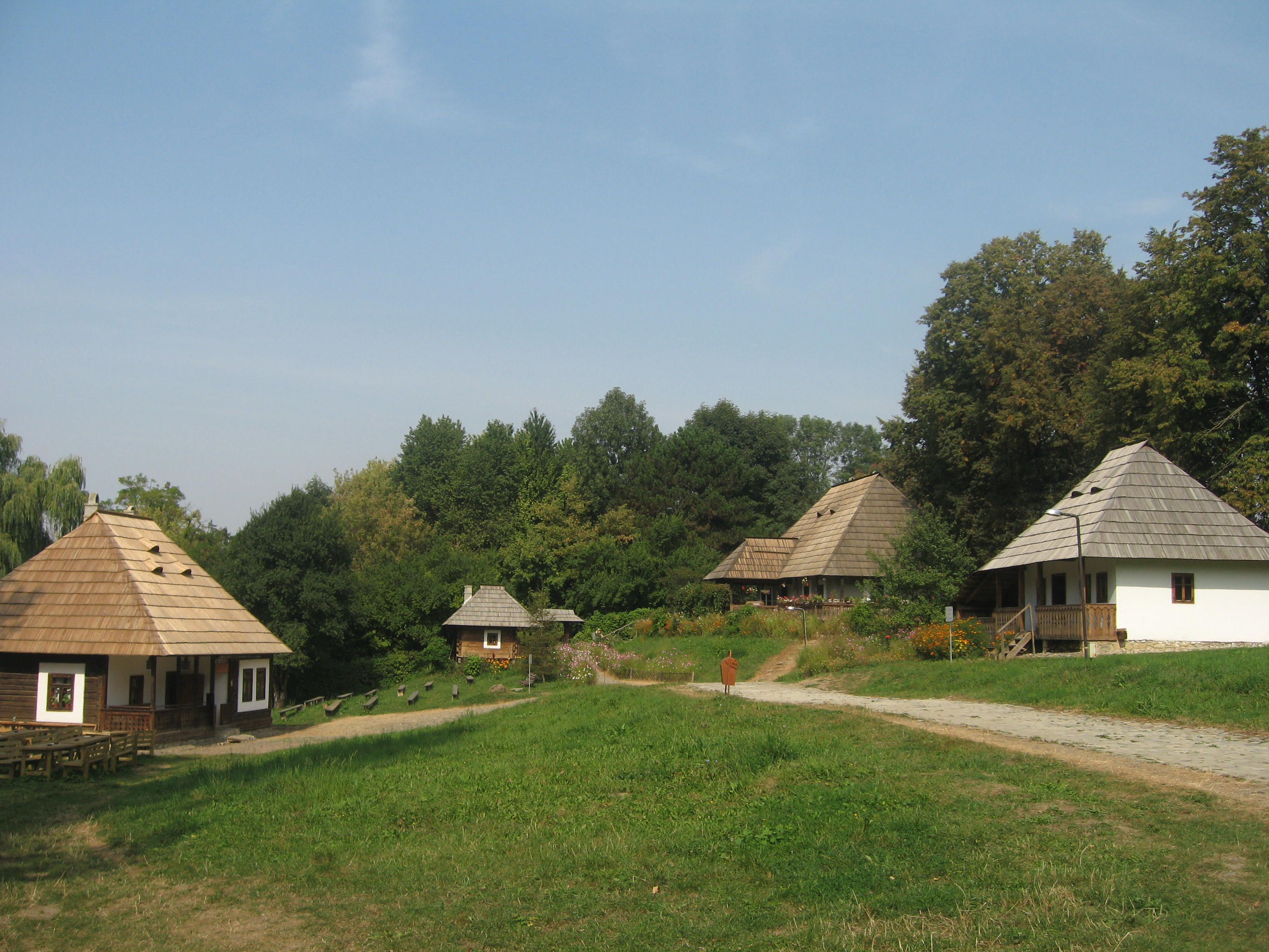 Bukovina Village Museum.